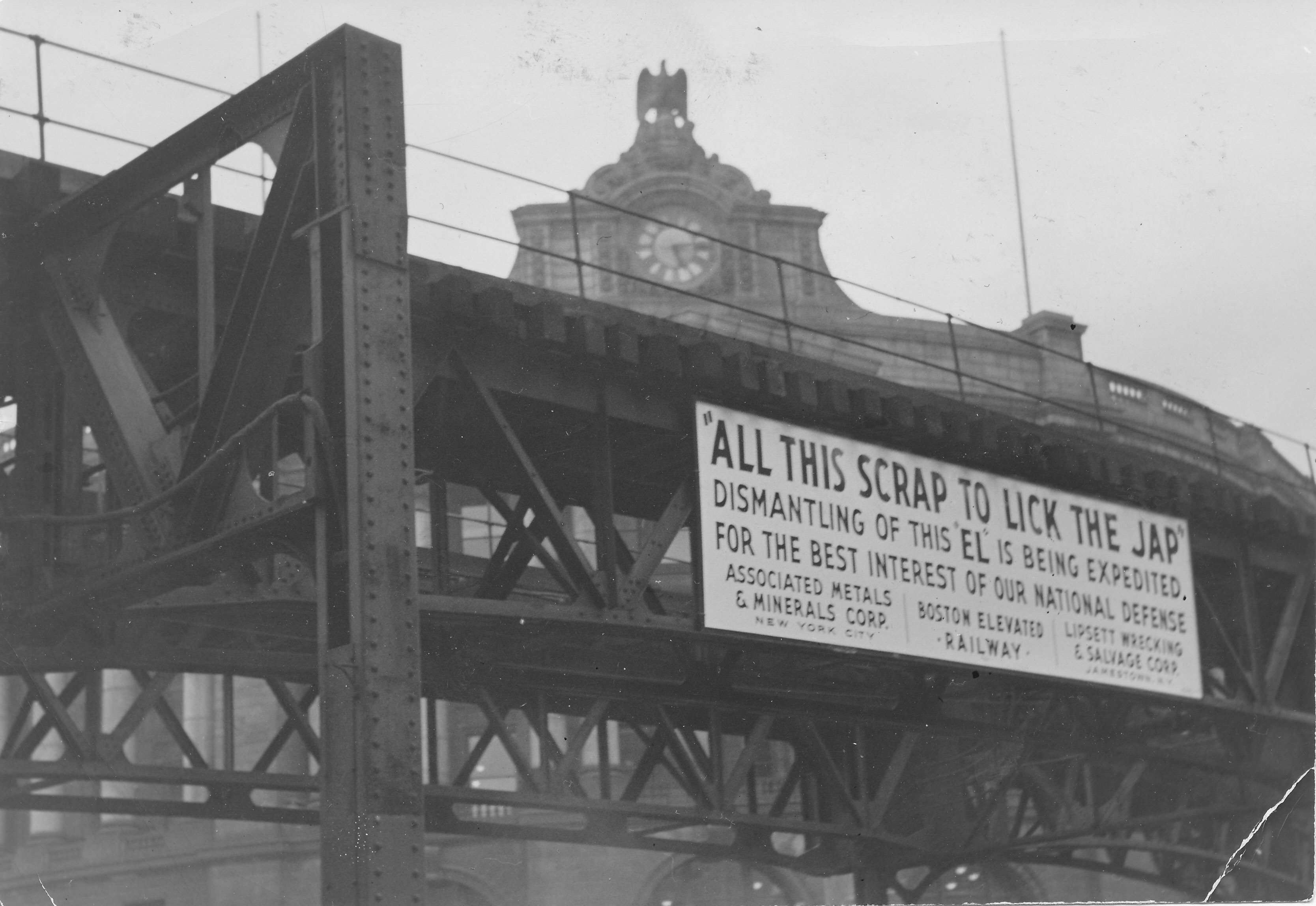 1942 demolition of the Atlantic Avenue Elevated near South Station